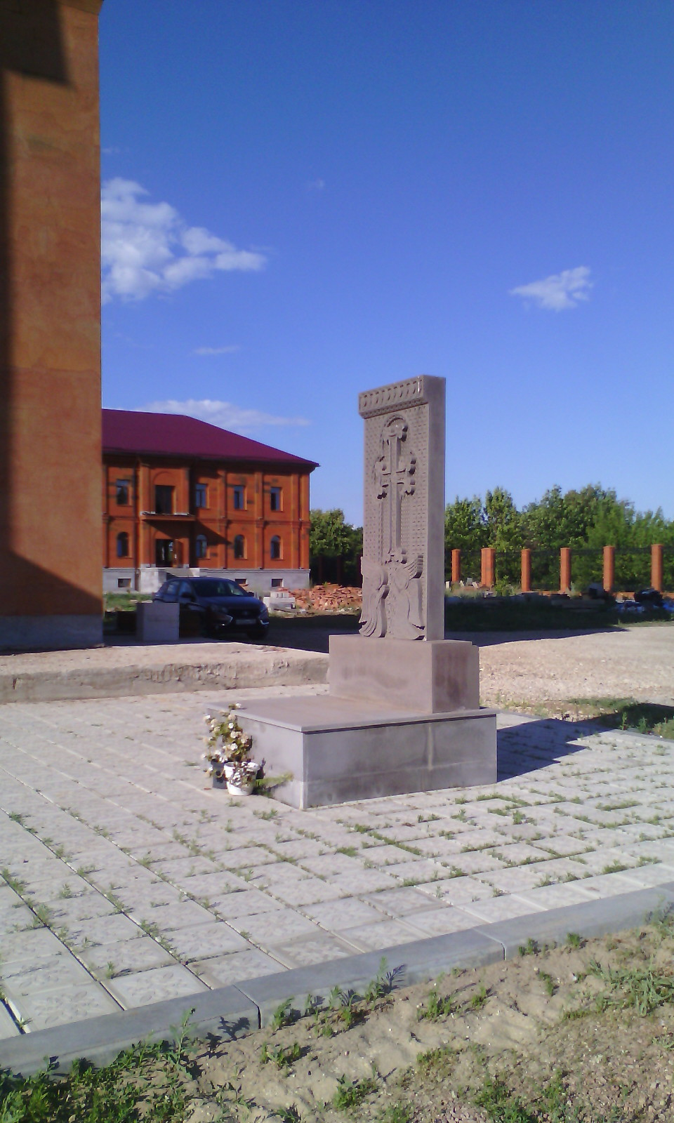 A crosstone to 1915 Genocide victims